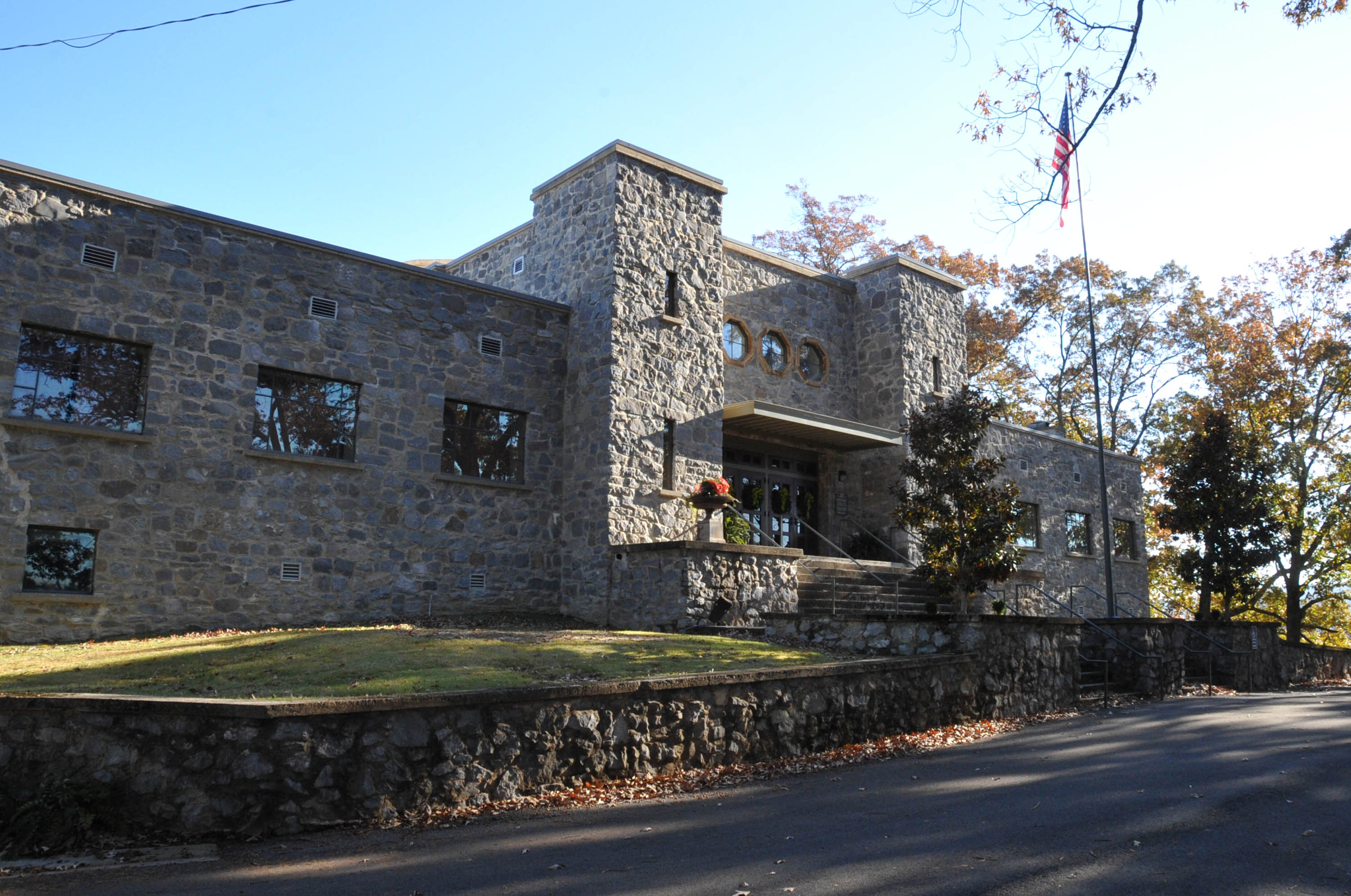 CONSTRUCTED IN THE 1930’S AS A WPA PROJECT;. IT IS NOW USED AS THE GUNTERSVILLE MUSEUM